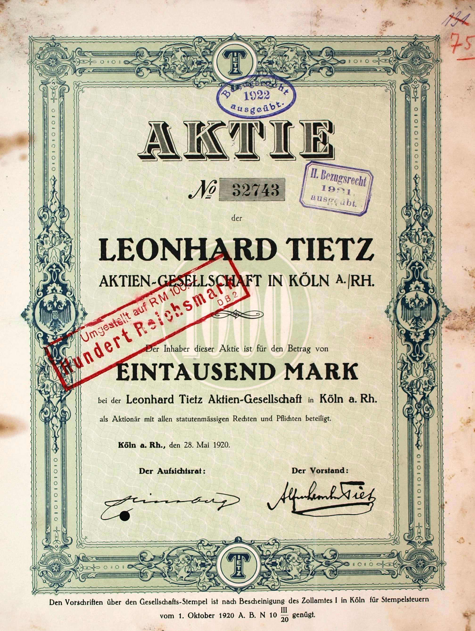 Share of the Leonhard Tietz AG, issued 28. May 1920